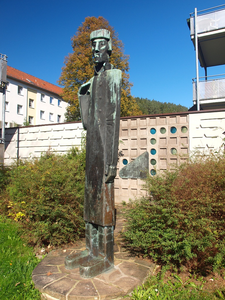 Sculpture of copper sheet in Bad Hersfeld, made by Wilhelm Hugues. The Sculpture ist part of a memorial for returnees from World War II captivity.